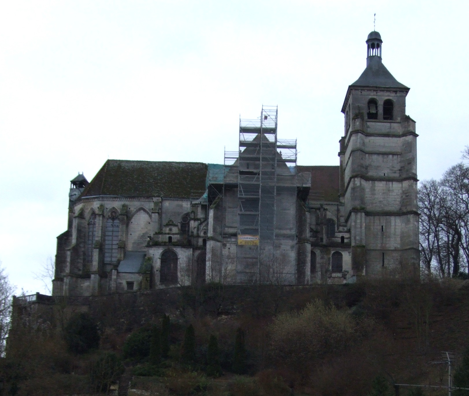 Tonnerre, Burgundy, FRANCE